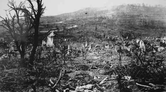 Devastated village of Soupir